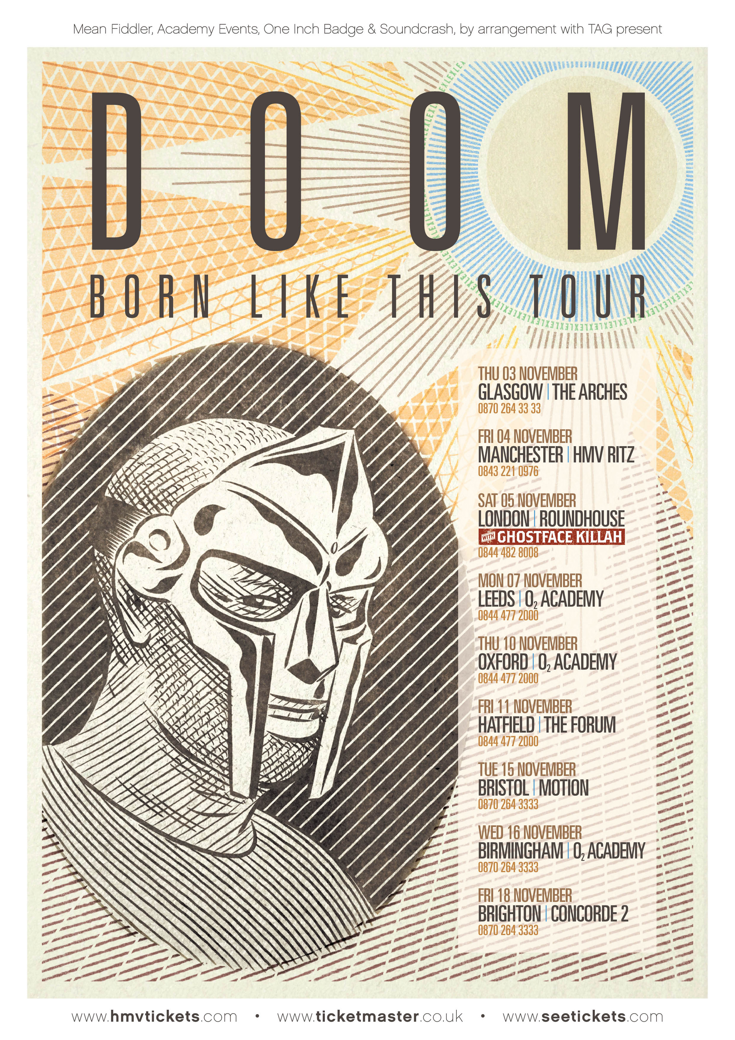 A poster promoting hip-hop artist MF Doom's November 2011 Born Like This Tour throughout the United Kingdom.